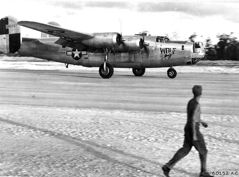 Landing on Anguar Island, Palau Islands, Caroline Group. "Wolf" Consolidated B-24J-175-CO Liberator Serial number 44-40737 867th Bomb Squadron, 494th Bomb Group, 7th Air Force.